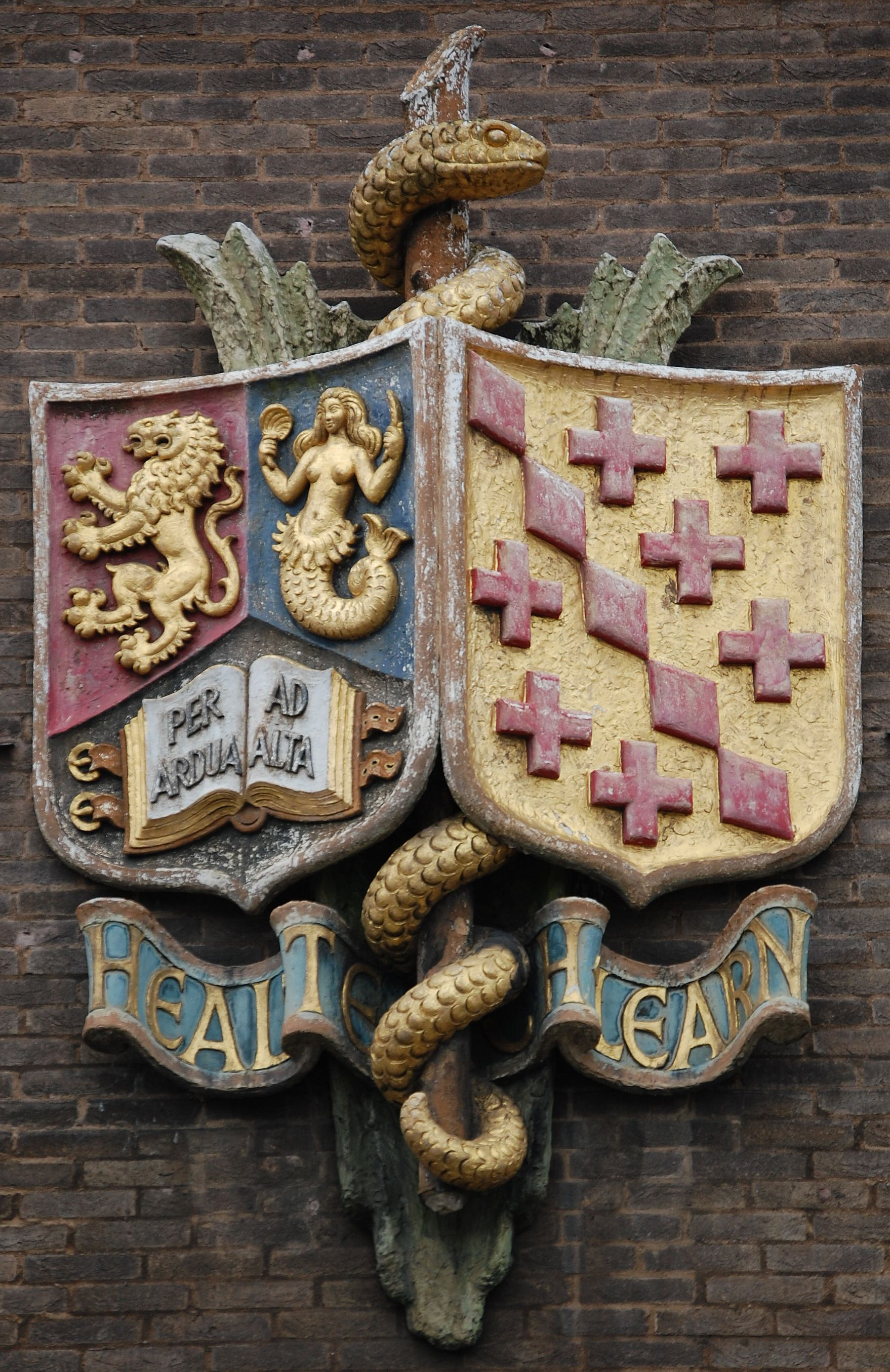 Fibreglass coat of arms, made by William Bloye, on the Birmingham Dental Hospital (University of Birmingham School of Dentistry).